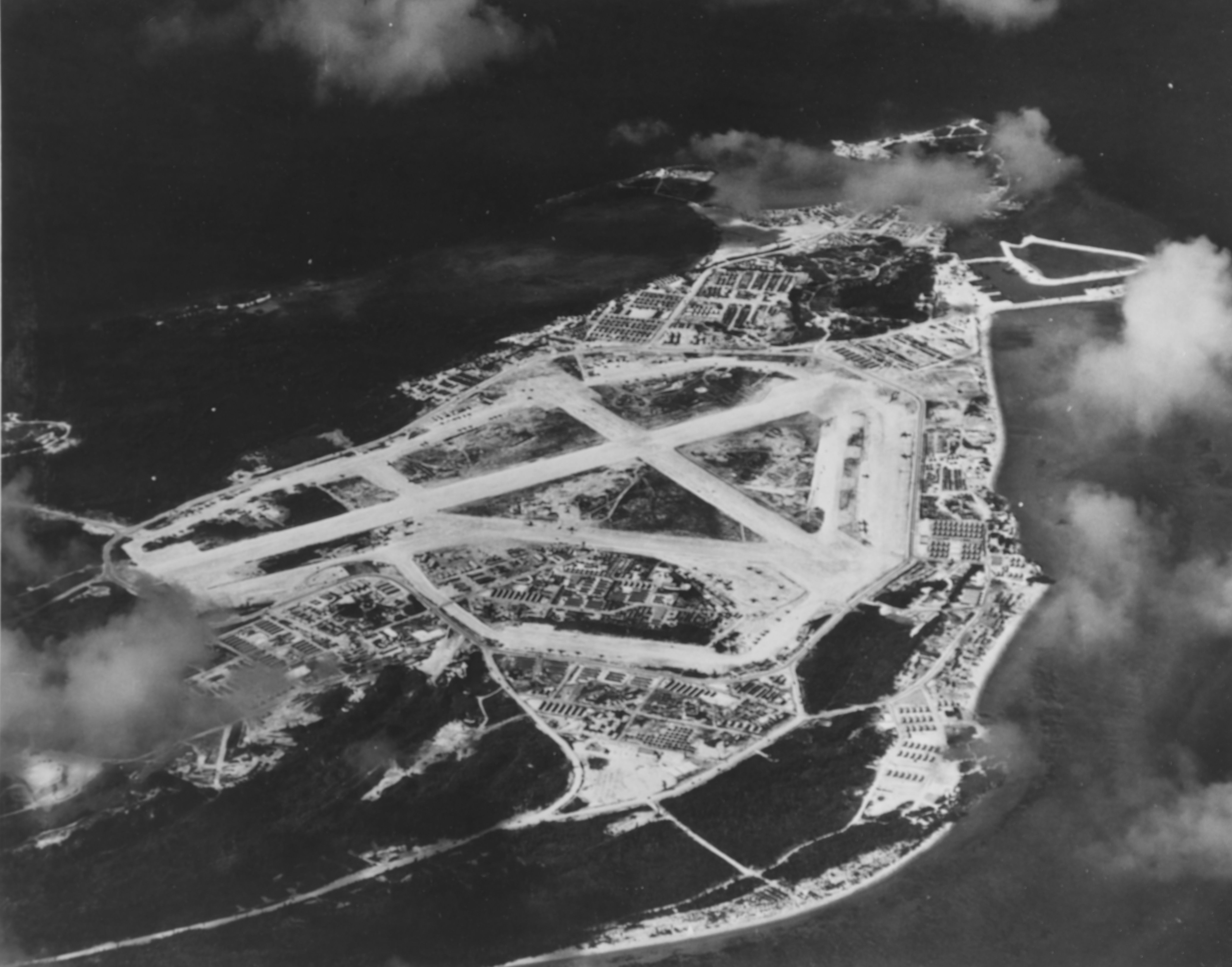 Peleliu Island, Caroline Islands: view looking south, 29 June 1945. In September 1944, the "white" and "orange" landing beaches were on the shoreline at right.